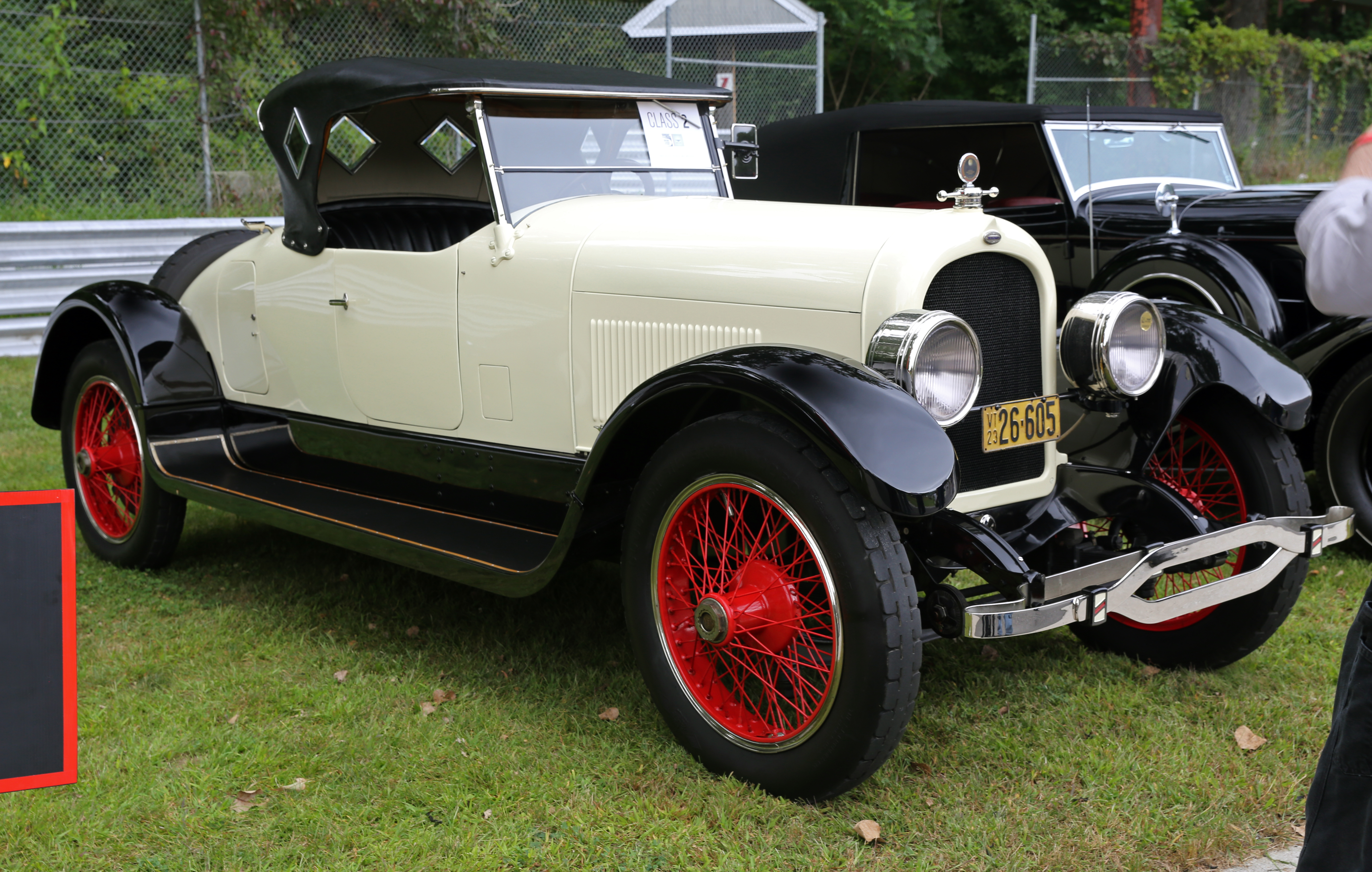 1923 Marmon 34B 2-seater Speedster at the 2014 Lime Rock Concours d'Élegance.